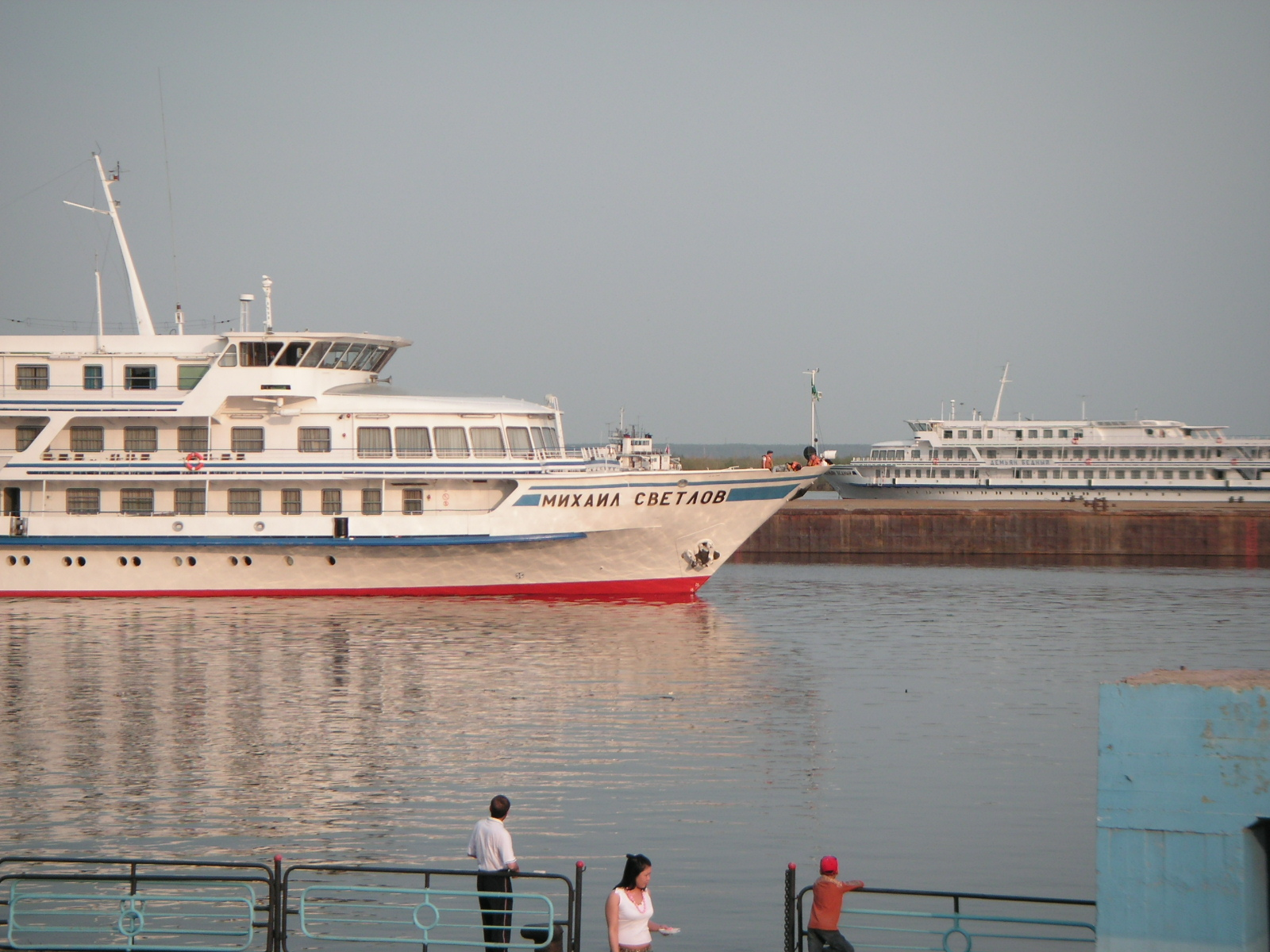 River cruise ships Mikhail Svetlov and Demyan Bednyy (project Q-065) in Port of Yakutsk